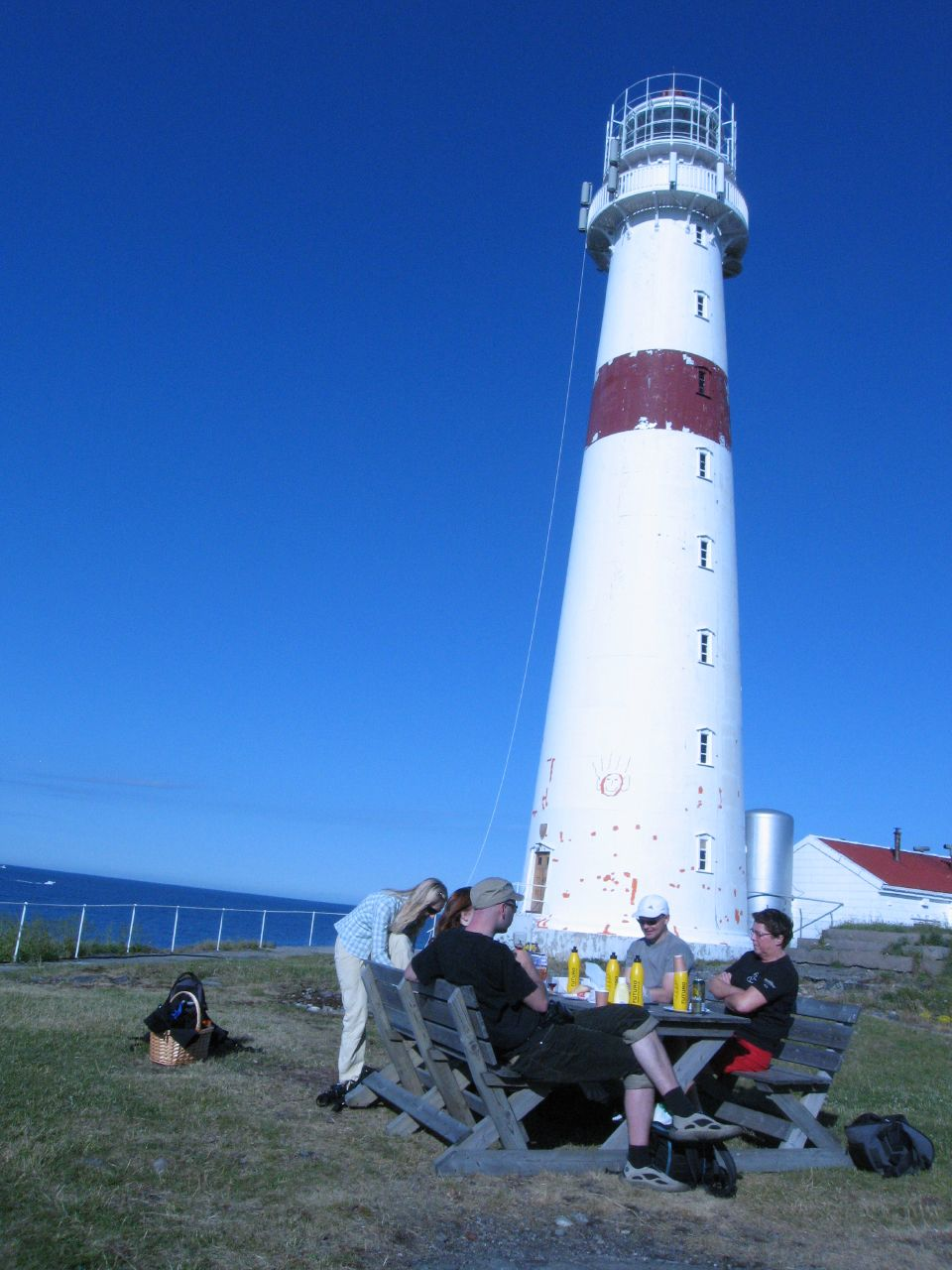 Picnic at Torungen lighthouse outside of Arendal in Norway, summer 2006.